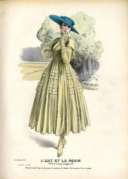 Pale green dress with "war crinoline" skirt, ruffle trimming and blue hat.